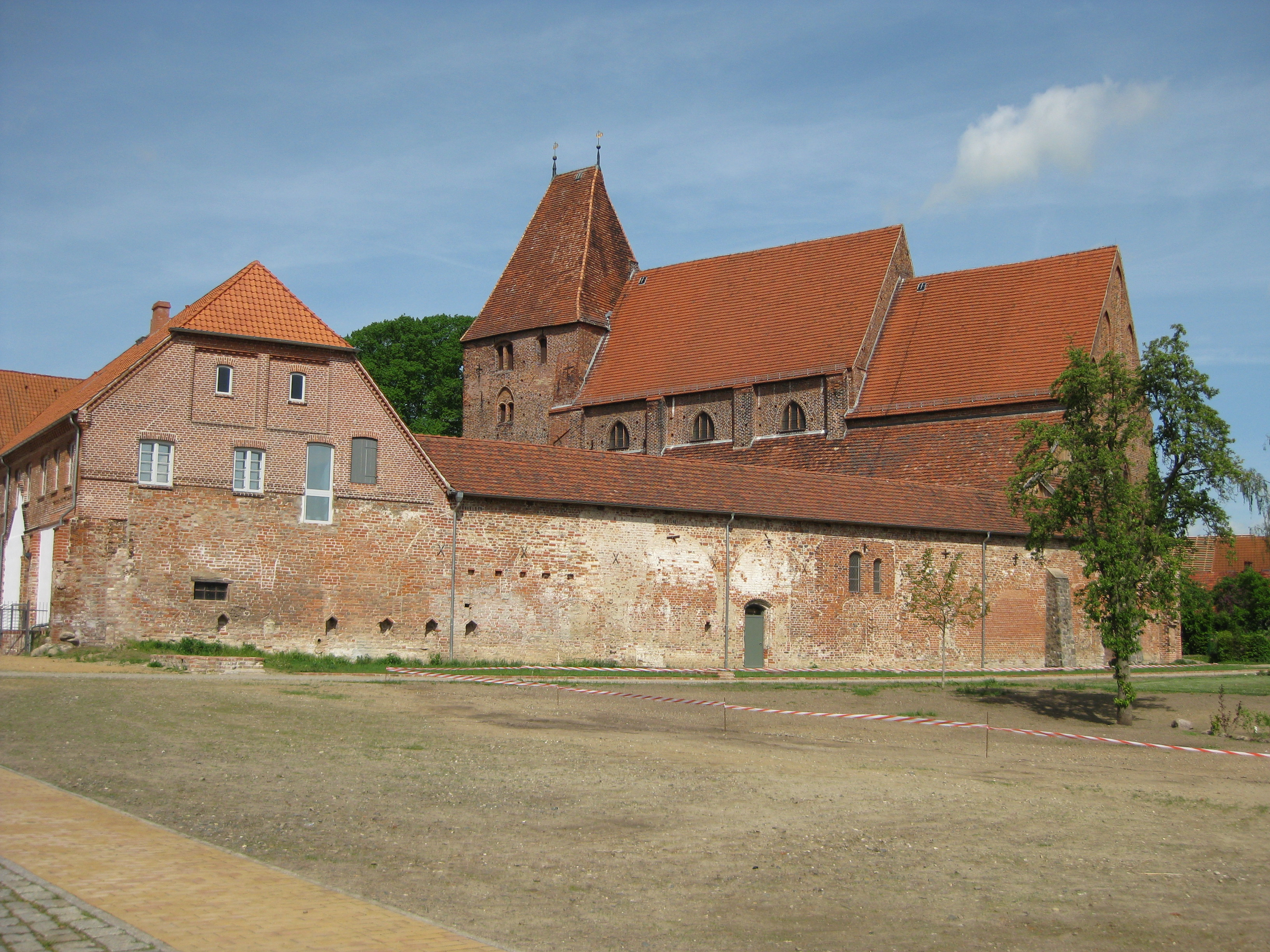 Rehna monastery